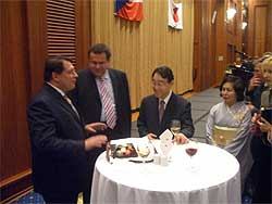 Jiří Paroubek, Prime Minister, attended the Reception to Celebrate the Emperor's Birthday with Hideaki Kumazawa, Ambassador to the Czech Republic, in Prague City on December 6, 2005.